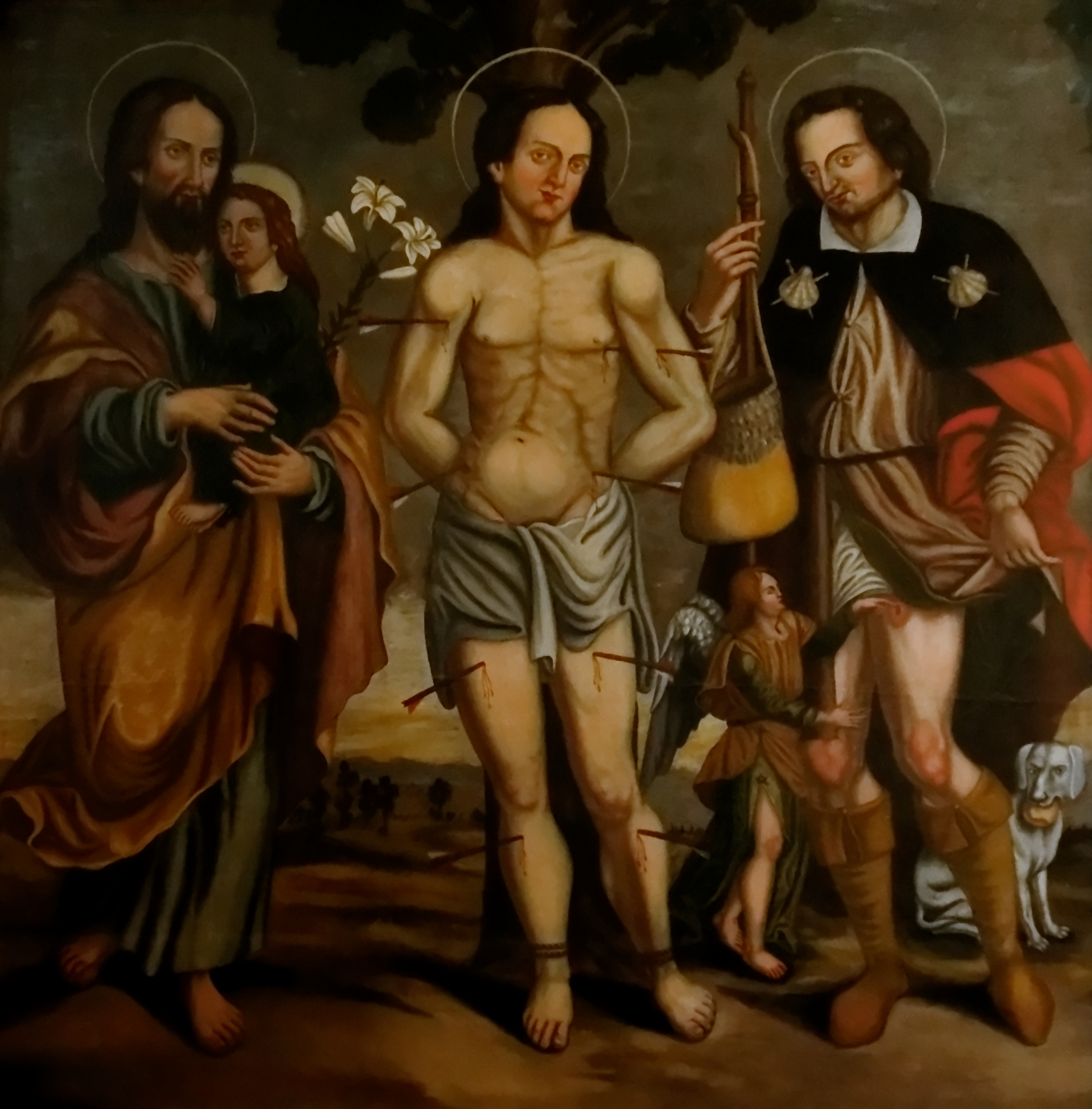 From left to right : Saint Joseph, Saint Sebastien and Saint Roch represented with his dog. Painting from the XVIe century exposed in the church of Vaugines (France). For praying against Bubonic plague